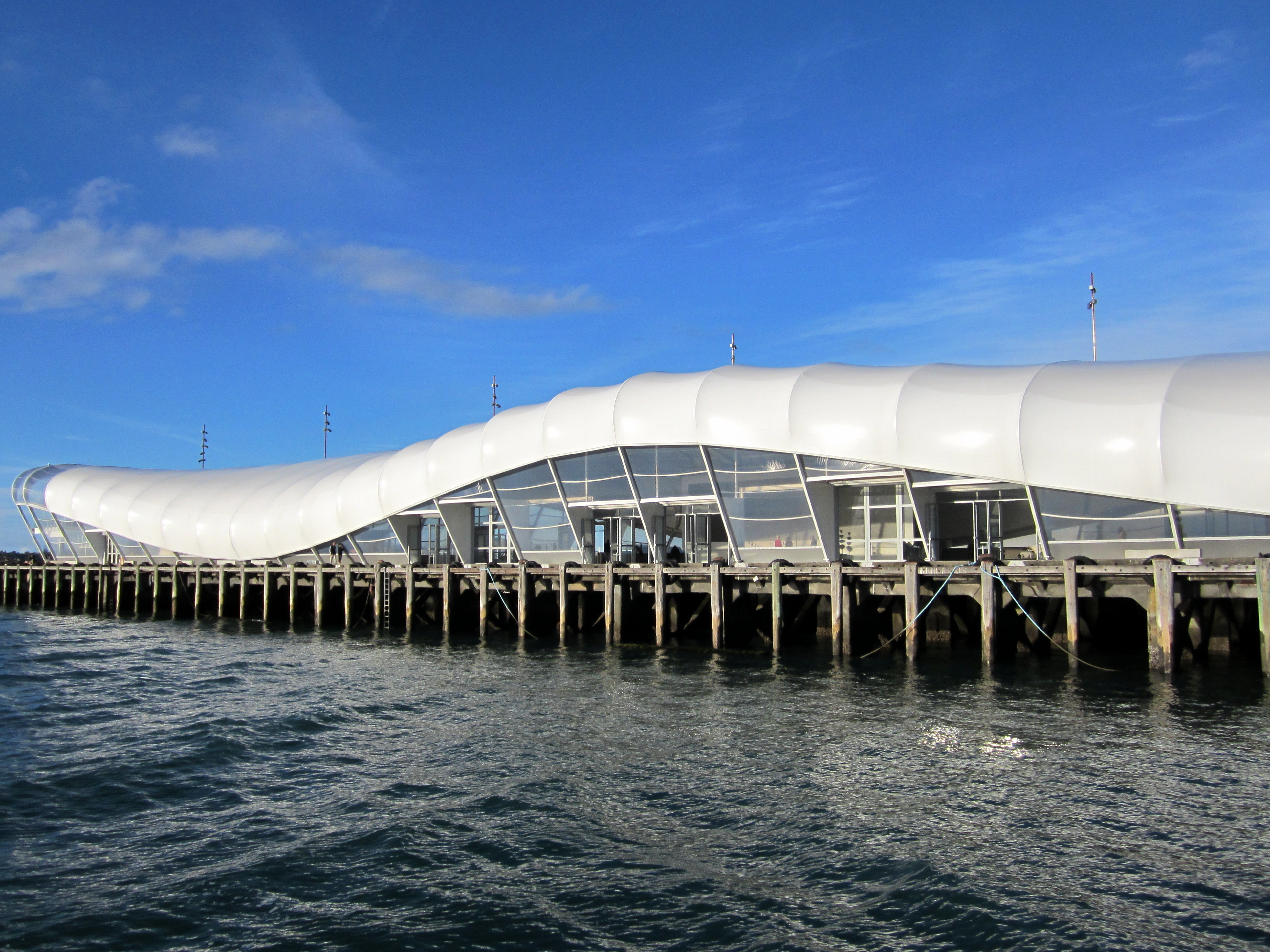 The western side of The Cloud viewed from the Devonport ferry